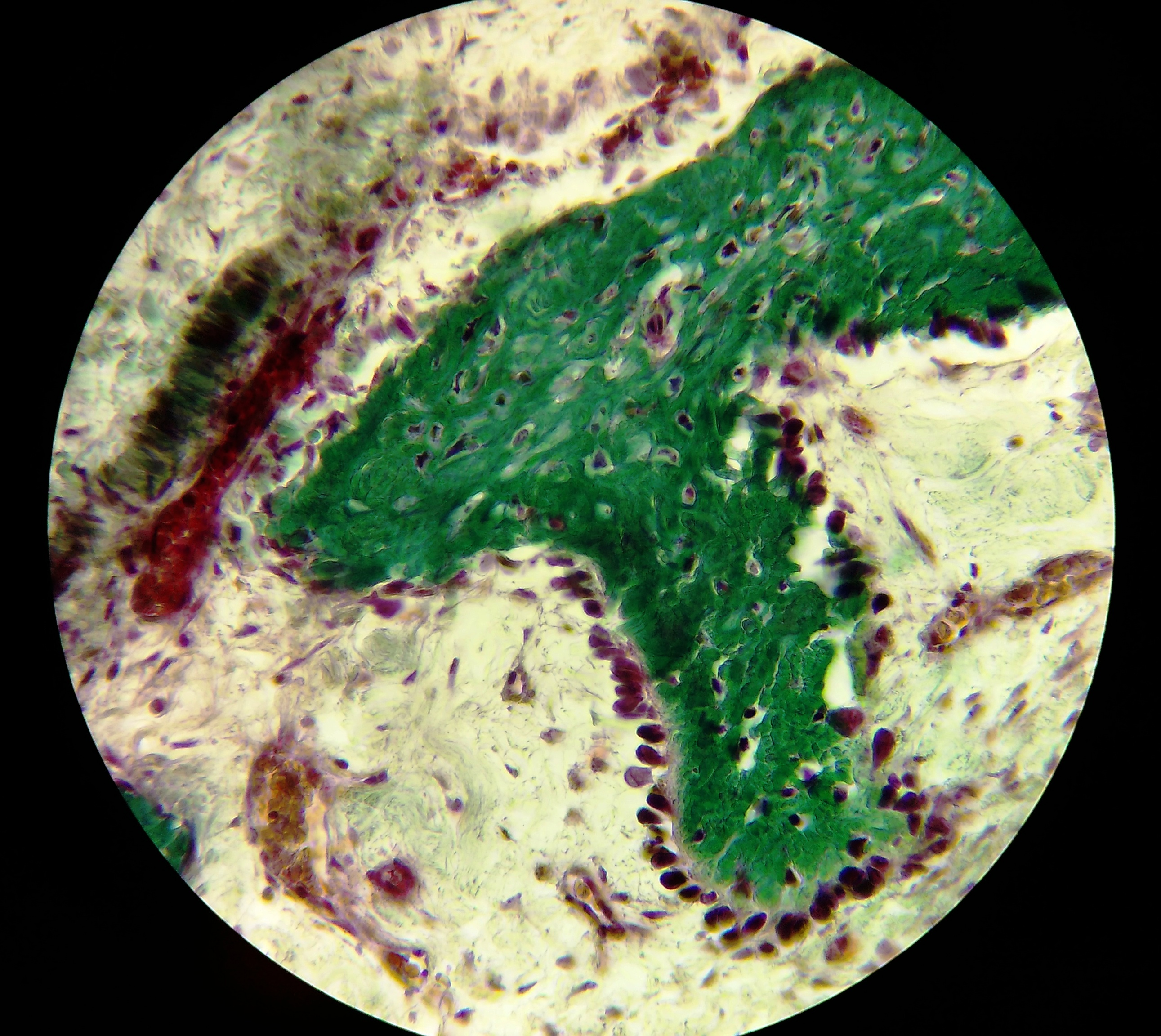 Desmogenous ossification (trichrome stain)